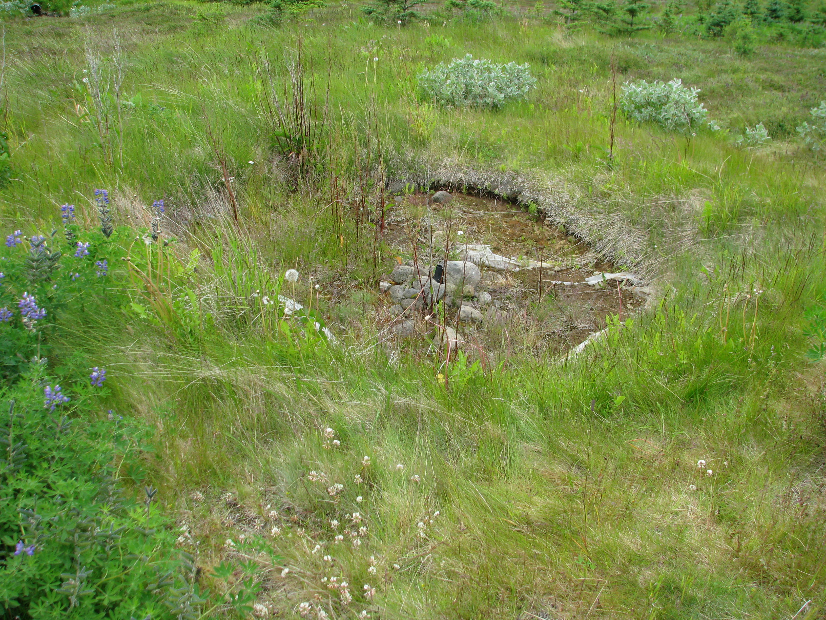 The remnants of a small geysir at Húsavík, a town in Iceland.